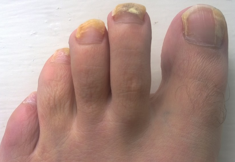 A patient's foot suffering from a fungal nail infection; ten weeks into a course of Terbinafine oral medication.